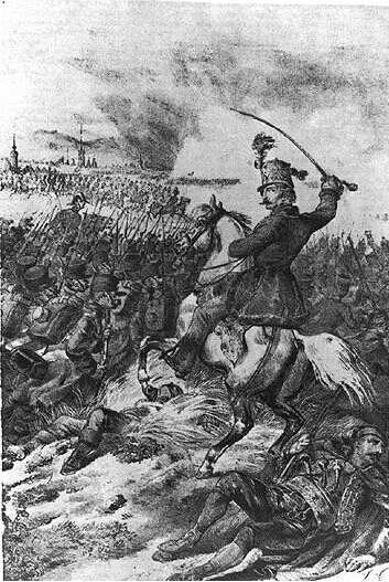 The Battle of Schwechat